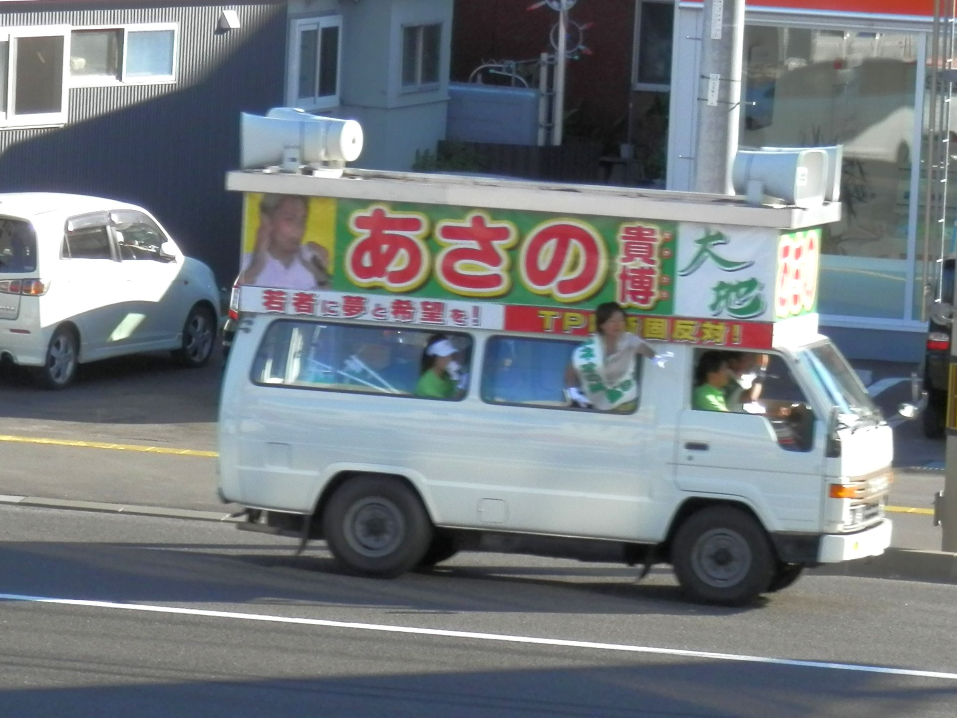 A sound truck promoting New Party Daichi's Takahiro Asano in the 2013 general election in Eniwa, Hokkaido